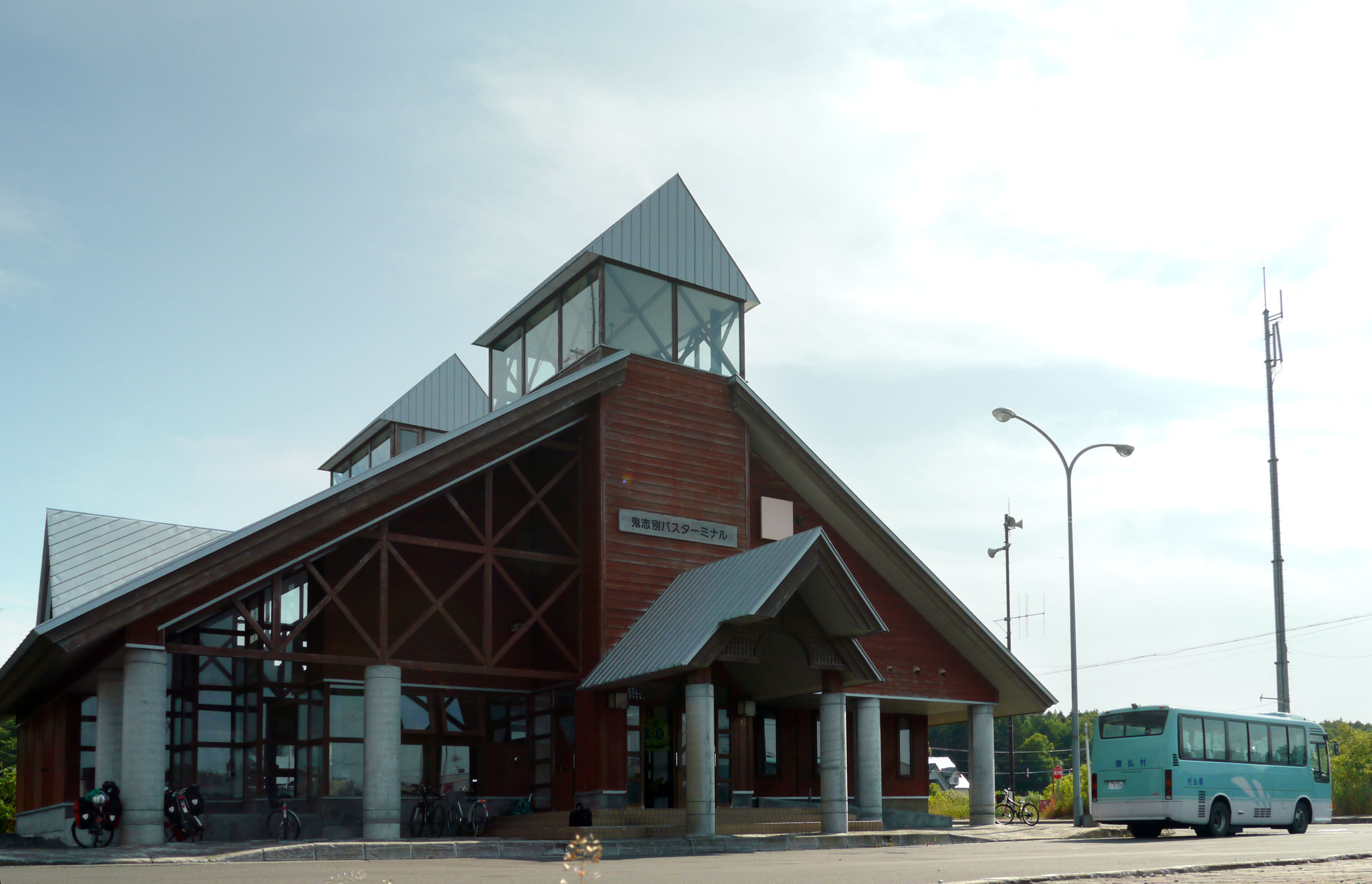 The remains of Onishibetsu Station of the Tenpoku Line in Hokkaido, Japan. Photo taken on August 4, 2011.